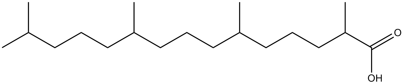 structure of pristanic acid made with ChemDraw